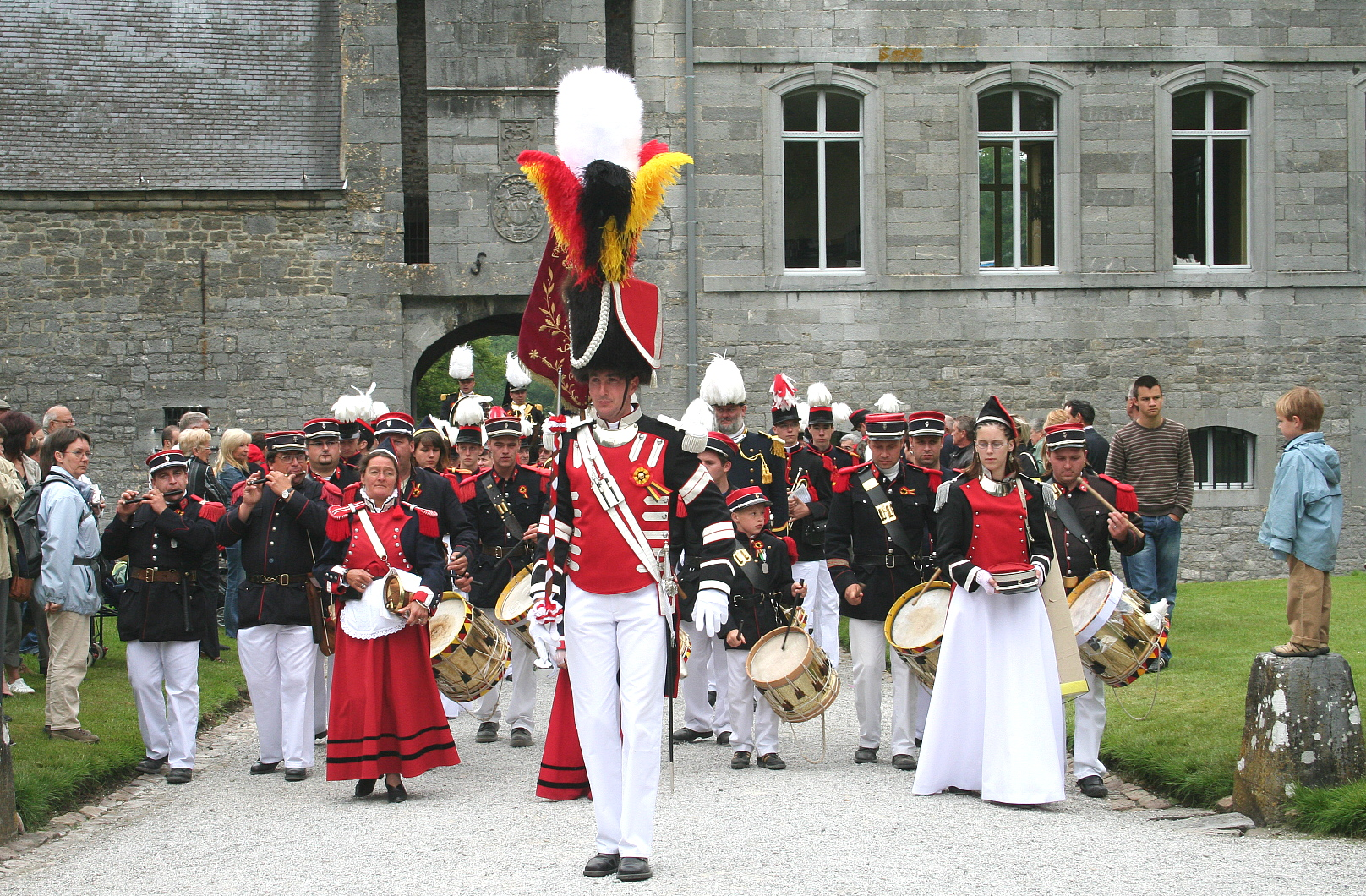 Acoz (Belgium): Acoz Royal Fanfare leaving the castle courtyard during "St. Rolende's March" (2007). Walon: Âcoz (Bèljike): Fanfare Rwèyale moussant foû dol coûr do tchèstê sul timps dol « Marche Sinte-Rolende » (2007).